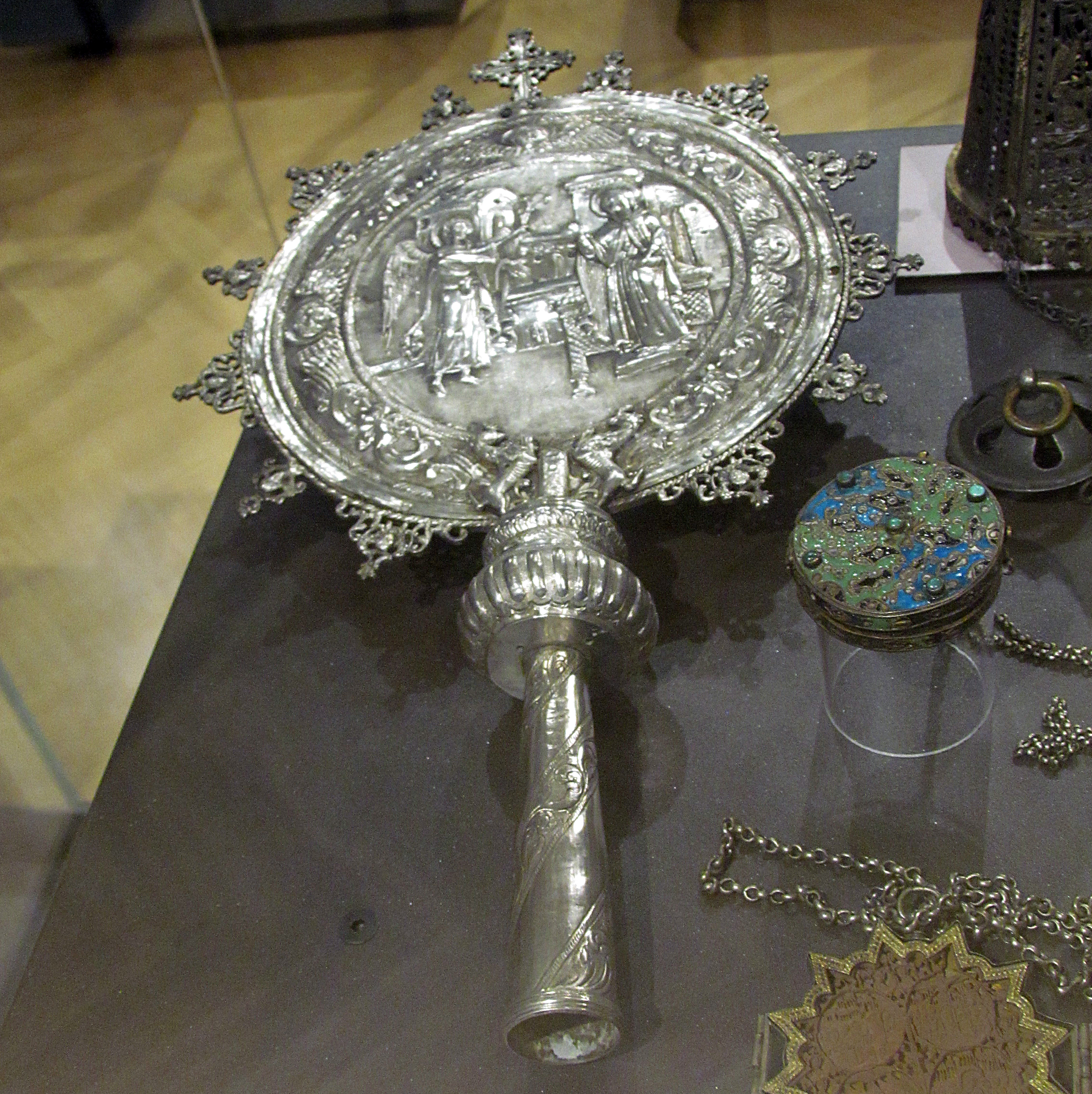 Rhipidion 1787. National Museum of Serbia